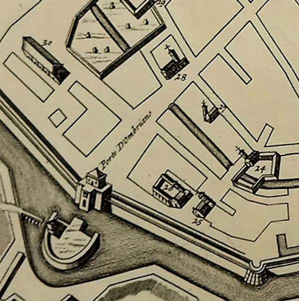 Crema town plant made by Pierre Mortier, particular with the "Santa Trinità" church at number 28, etching, Amsterdam, 1708